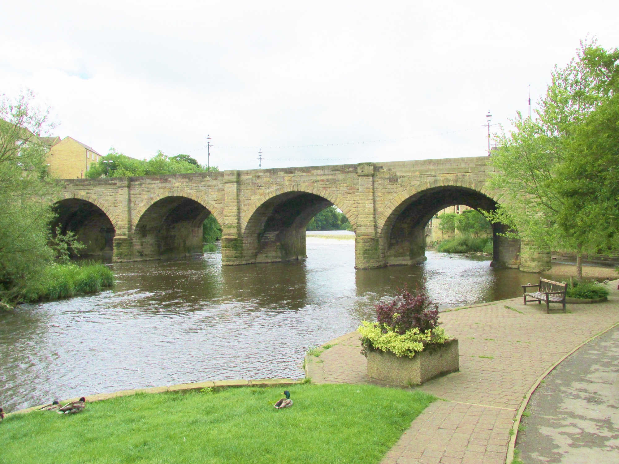 Wetherby Bridge